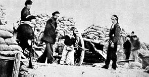 Barricade during the Commune of Paris